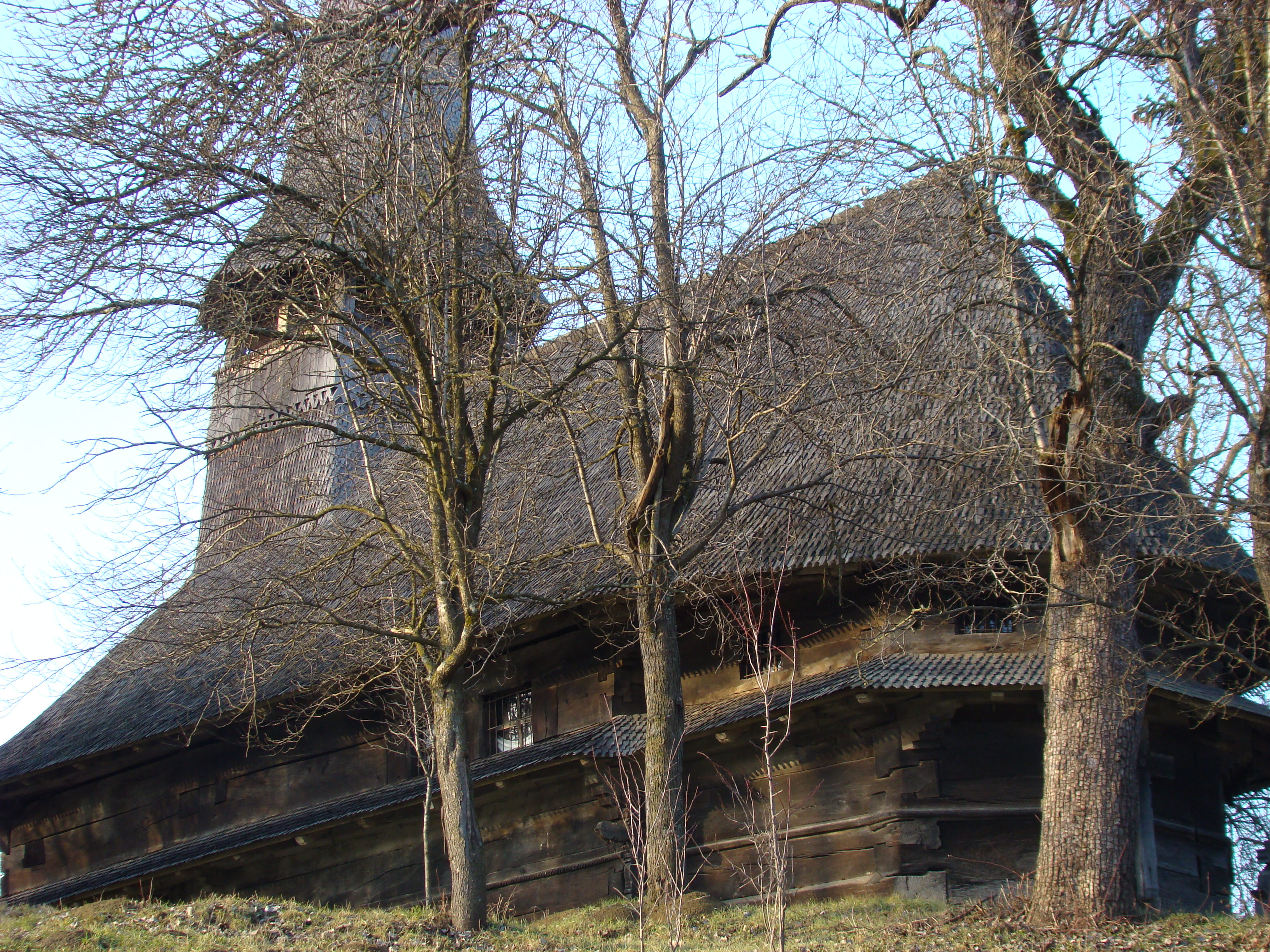 Wooden church in Domnin, Sălaj